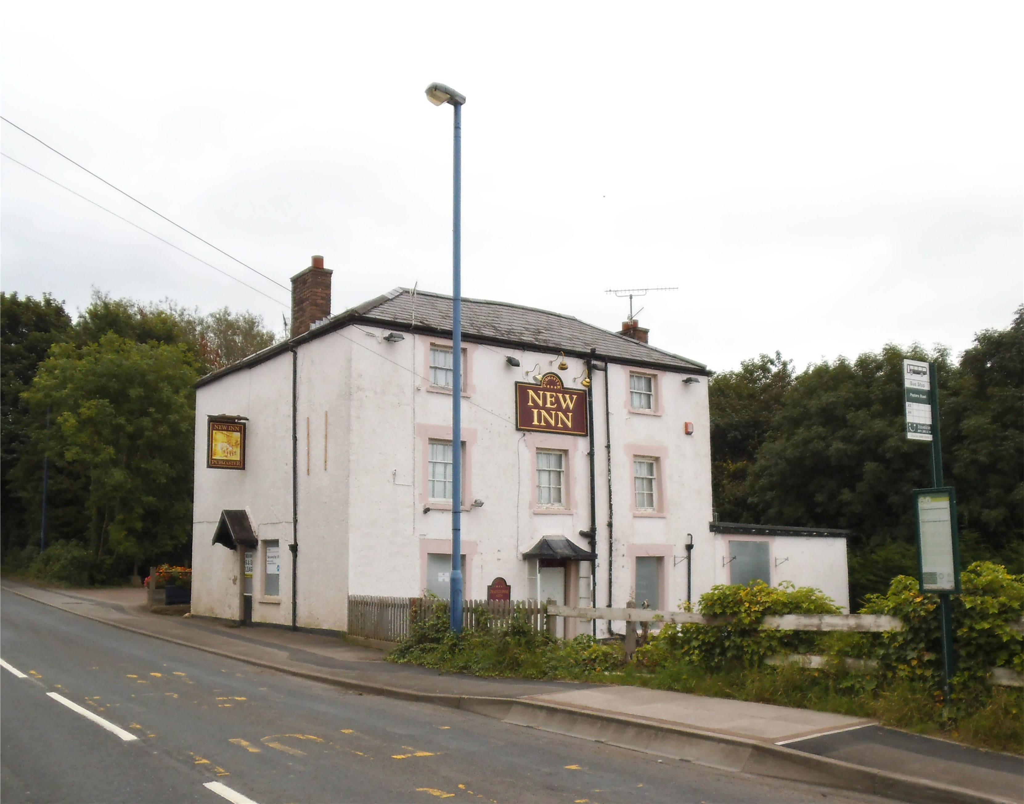 At the time of taking this image the building was for sale and closed to the public